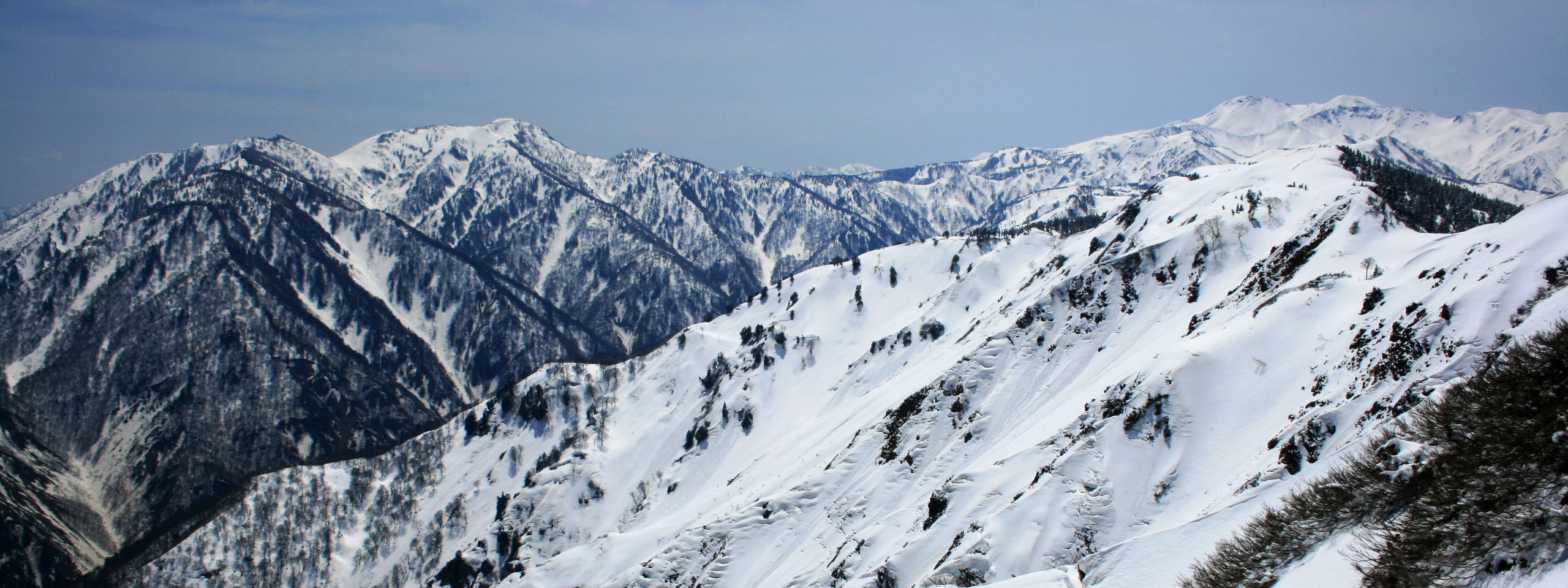 Mount Sanpōkuzure and Mount Haku seen from Mount Sanpoiwa